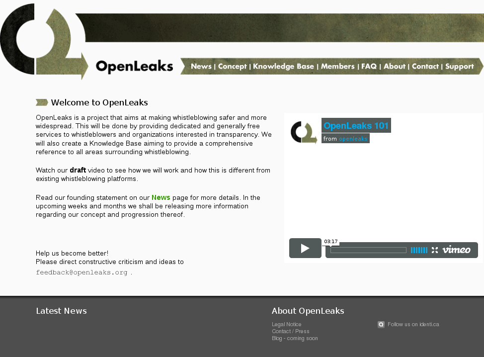 Homepage of OpenLeaks.